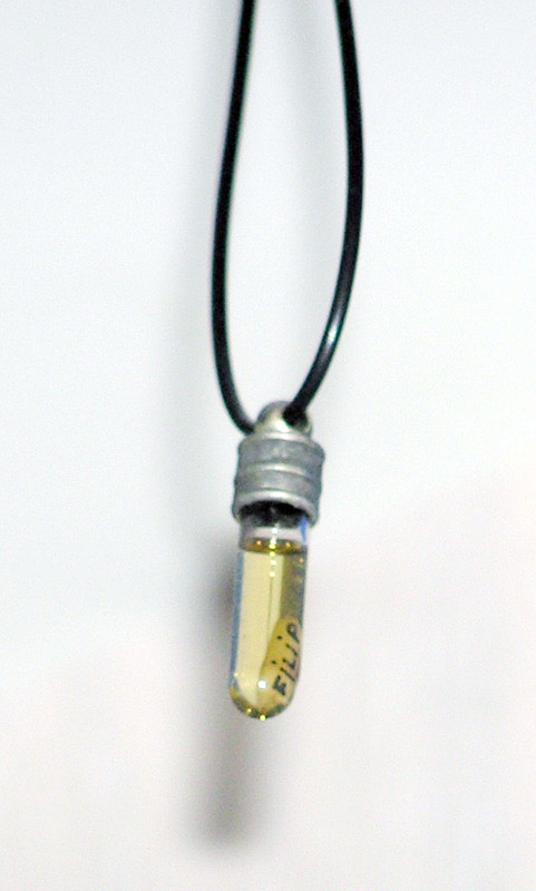 A photo of a grain of rice with writing on it